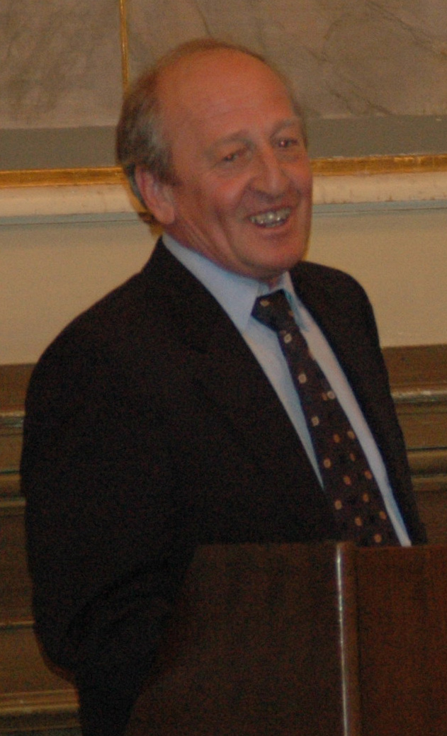 Joachim Rychly as oral contributor in 2005